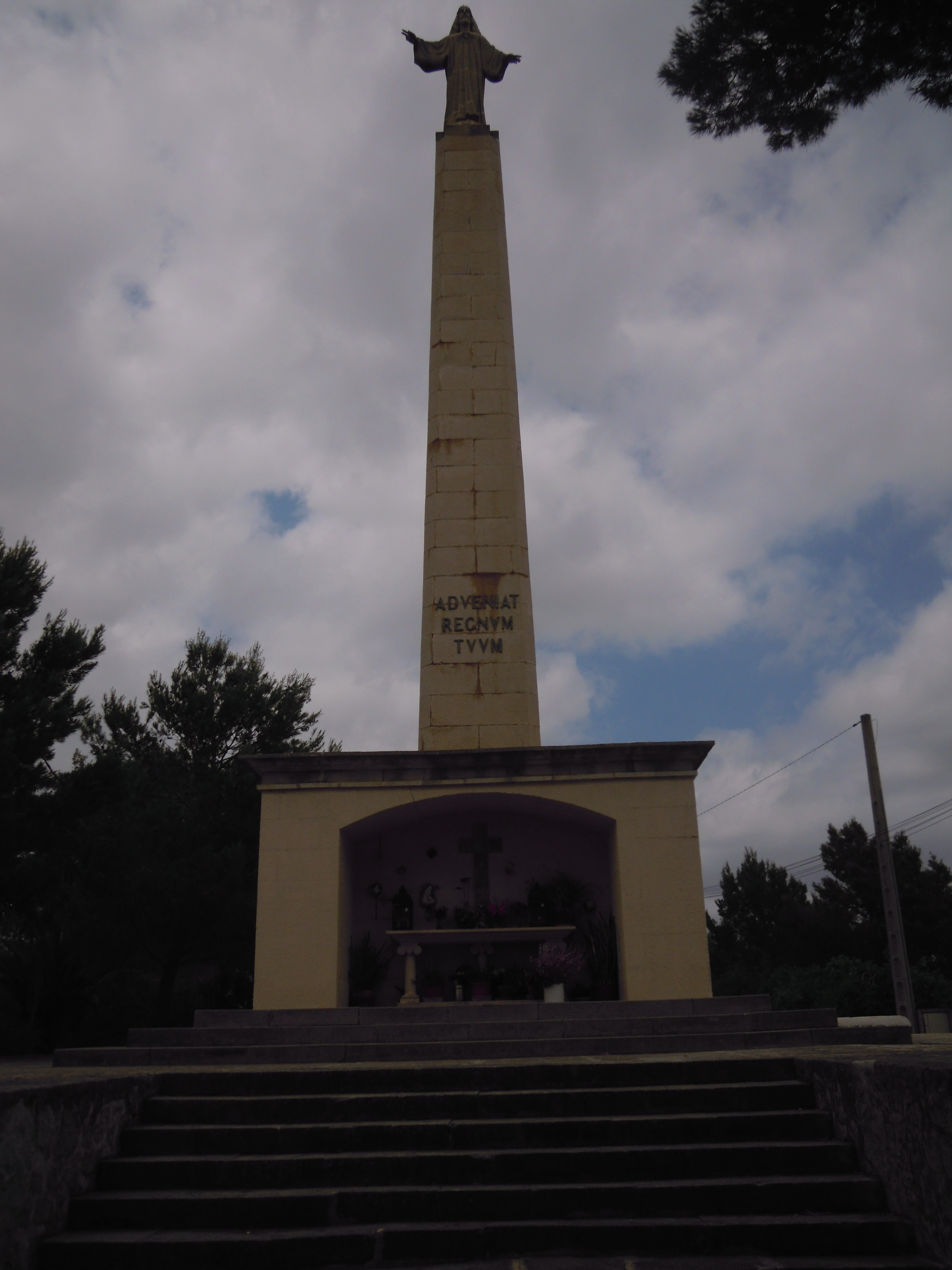 The statue of Christ, the Sacred Heart of Jesus in the small hamlet of Puig de na Ribas north of Ibiza town, Ibiza, Spain